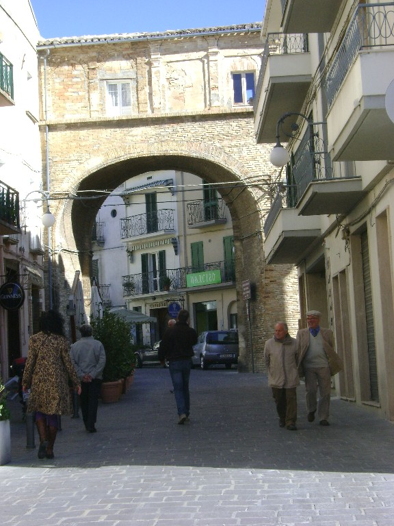 The Arch'Ndriano or of St. Nicola to Atessa